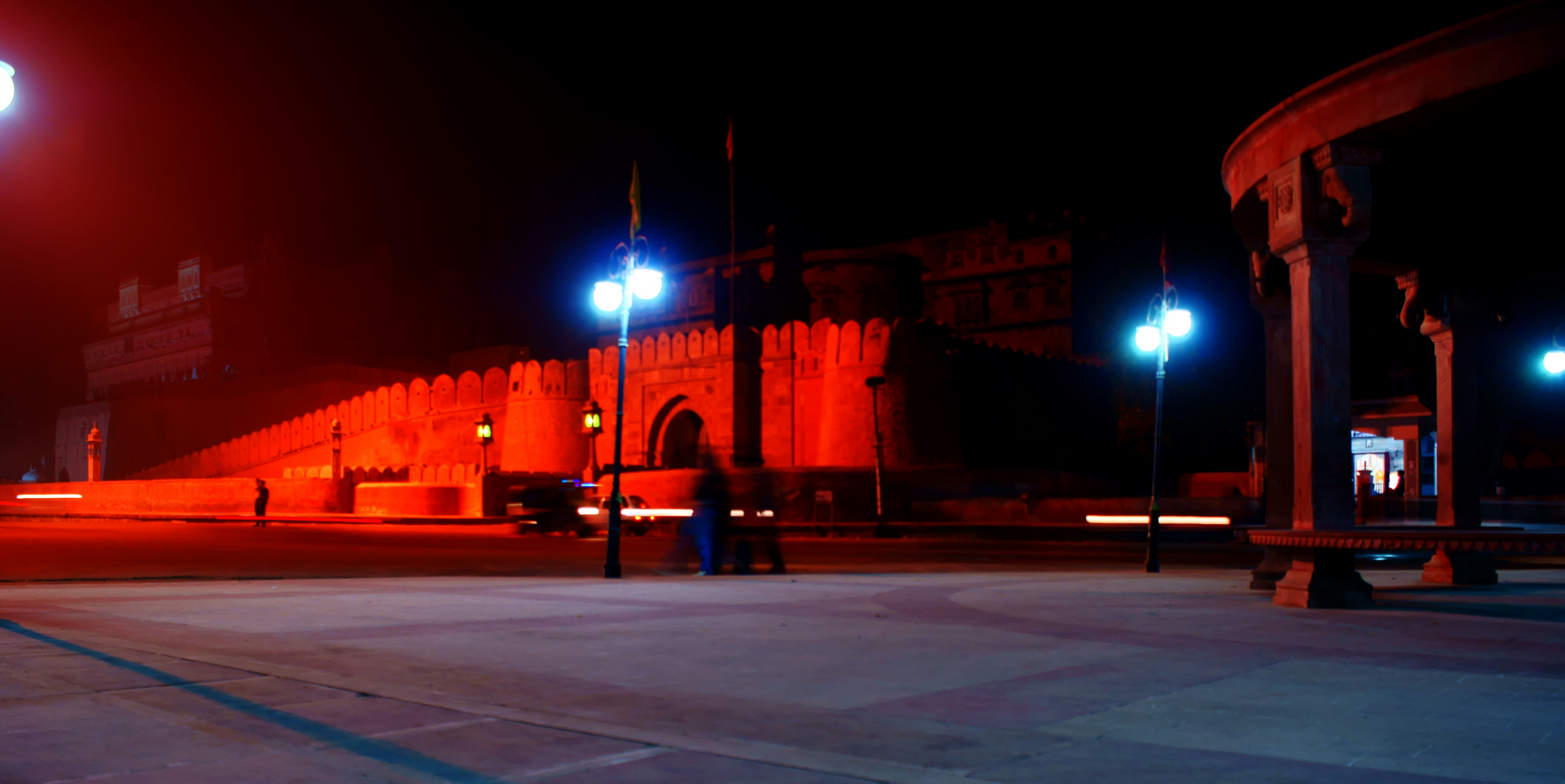 The fort is located at Bikaner, Rajasthan, India.